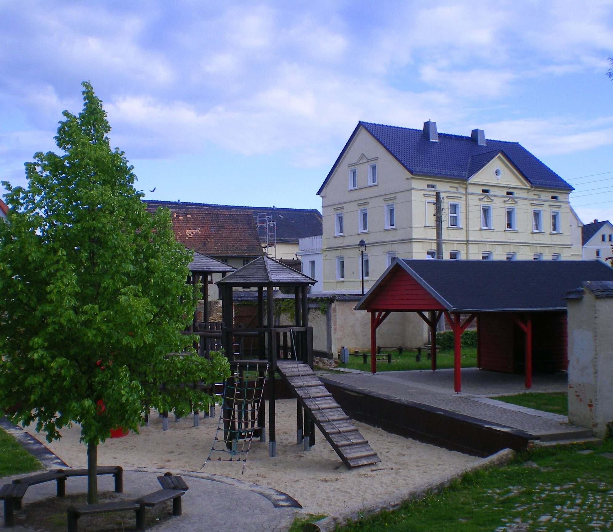 Play area in Schmölln-Selka near Gera/Thuringa in district of Altenburger Land